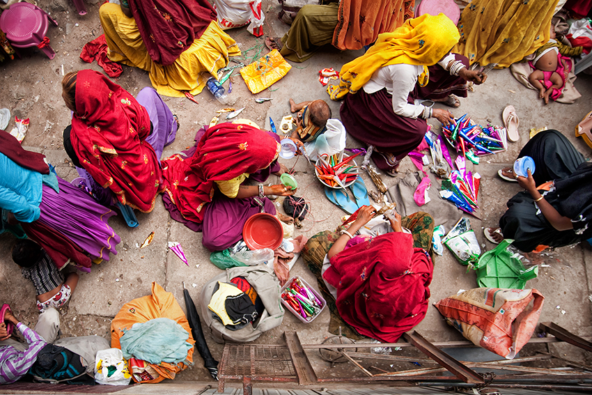 Mehendi artists in the streets of Bangalore